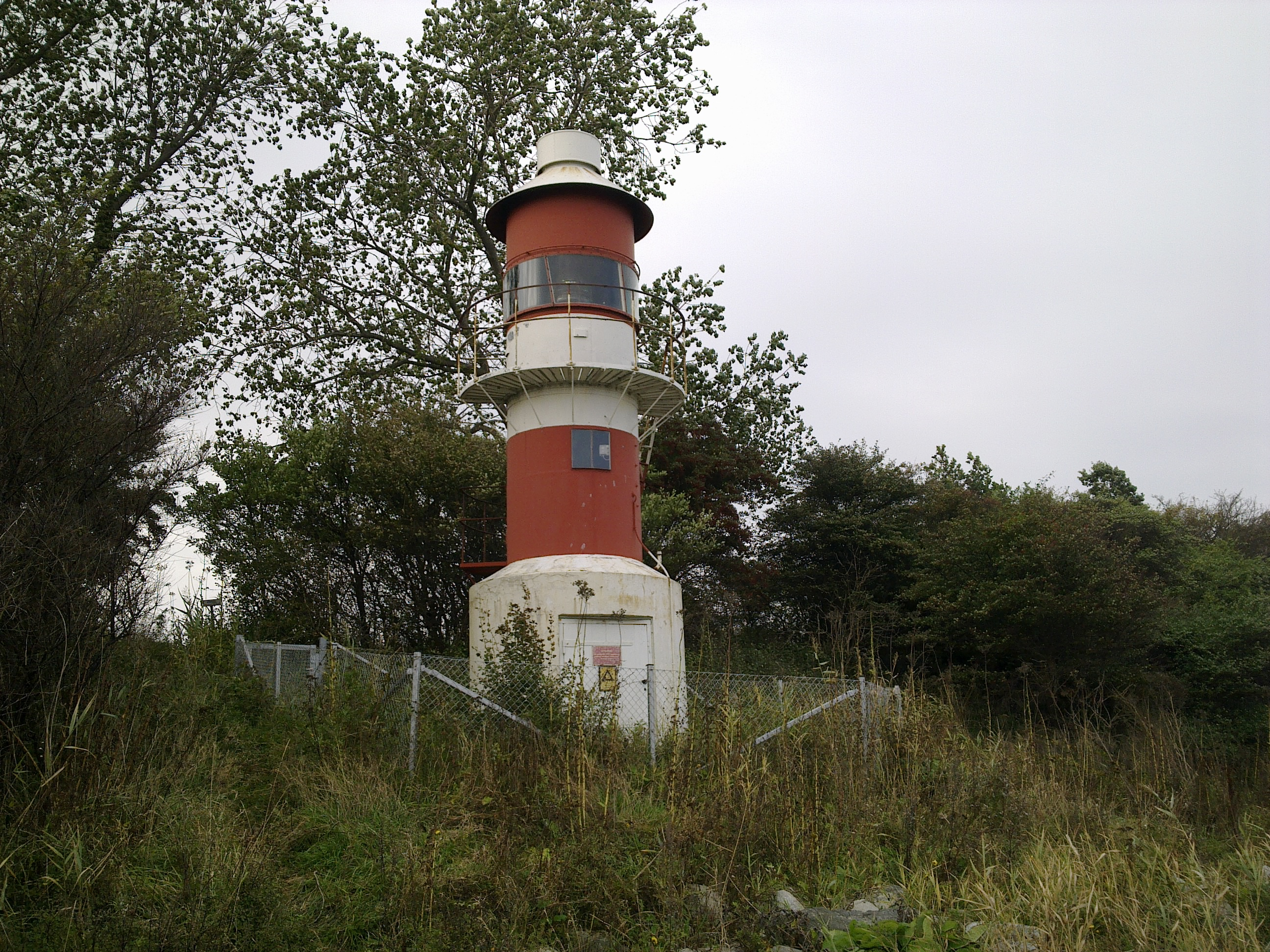 the lighthouse at Elsehoved, Denmark